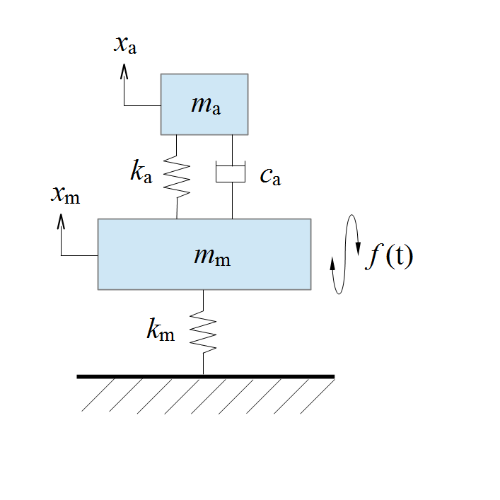 Mass-spring-damper 2 body system, a main mass without damper, the main mass subjected to a vibratory force, simple model of tuned mass damper model/dynamic vibration absorber